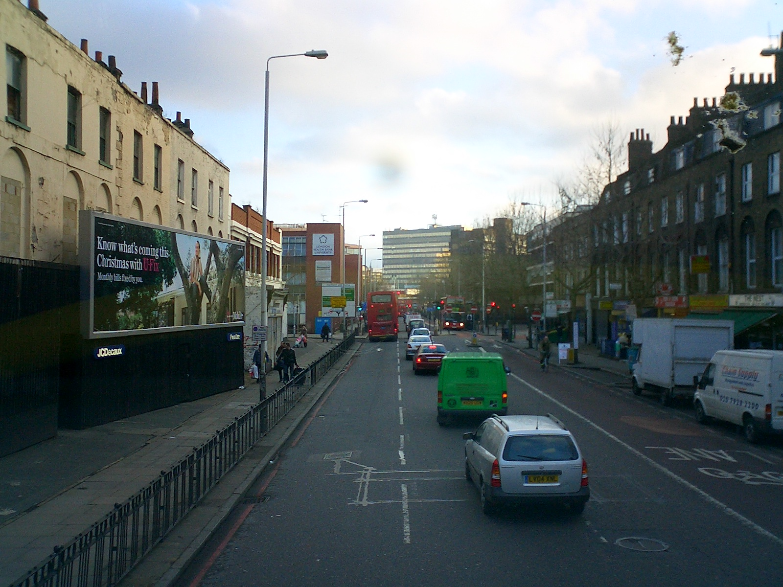 Looking south from the top deck of a double decker bus on London Road, London SE1, England. Photograph by Jonathan Bowen, 12 January 2006.